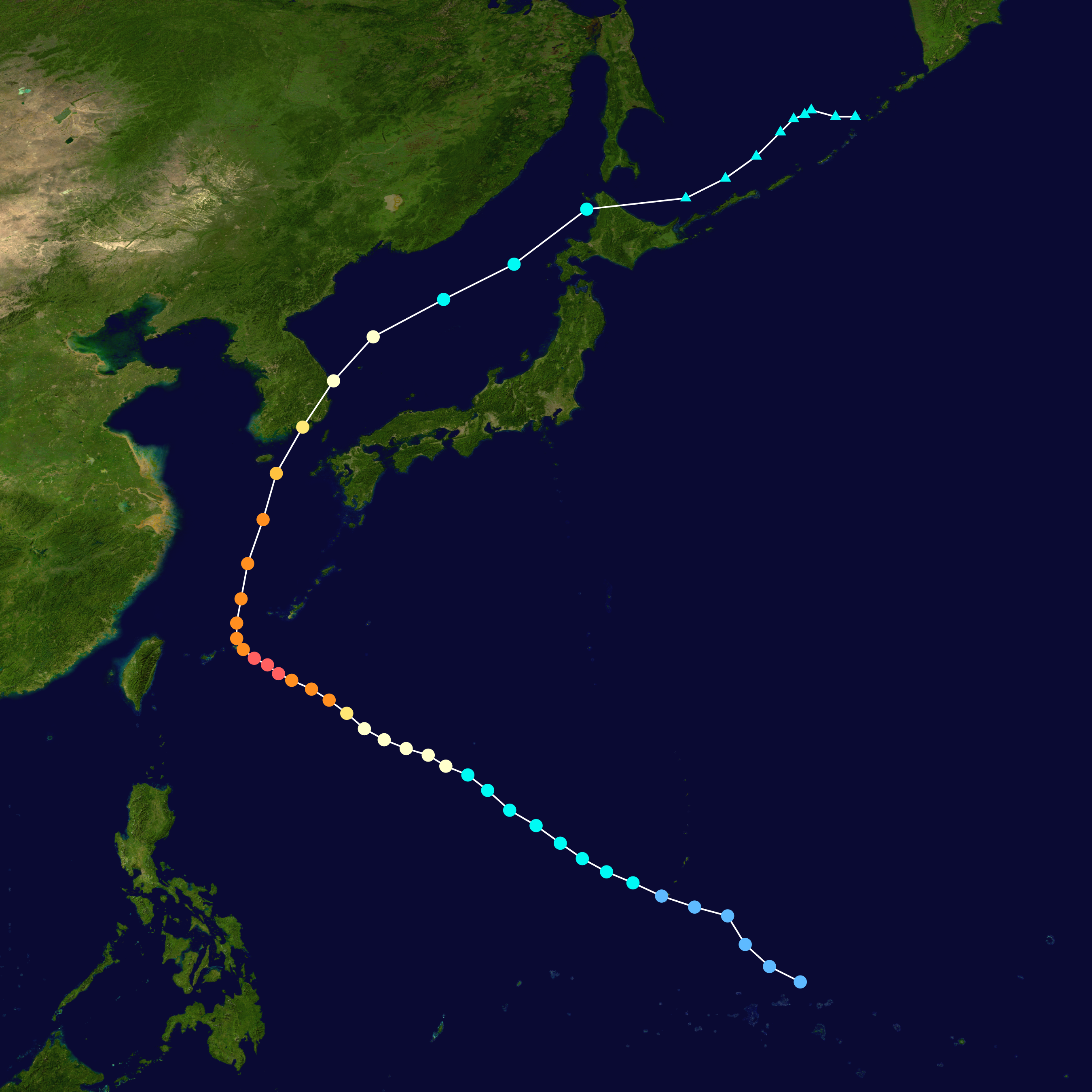 Typhoon Maemi (2003) track. Uses the color scheme from the Saffir-Simpson Hurricane Scale.